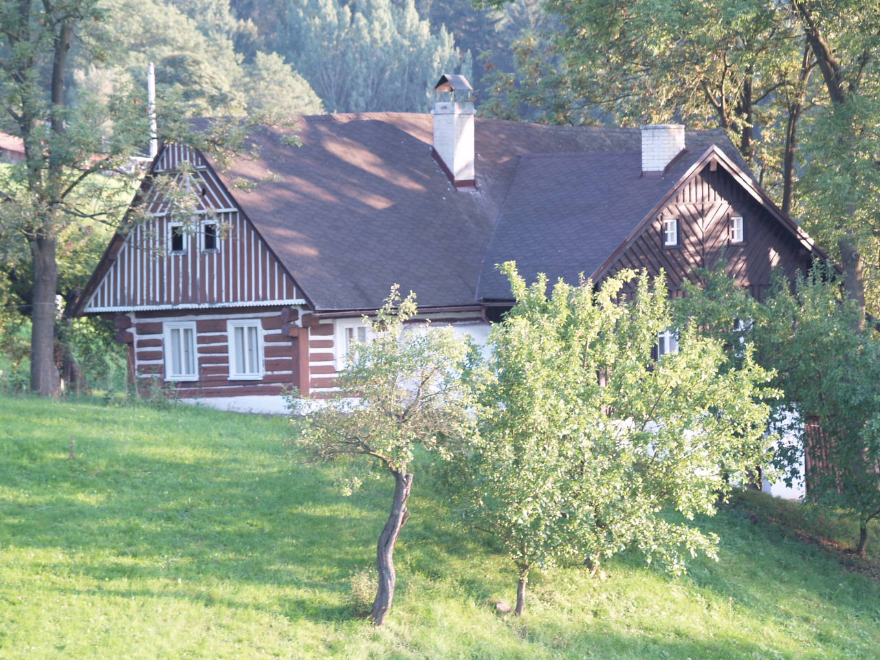 Timber cottage (Bystra_nad_Jizerou)